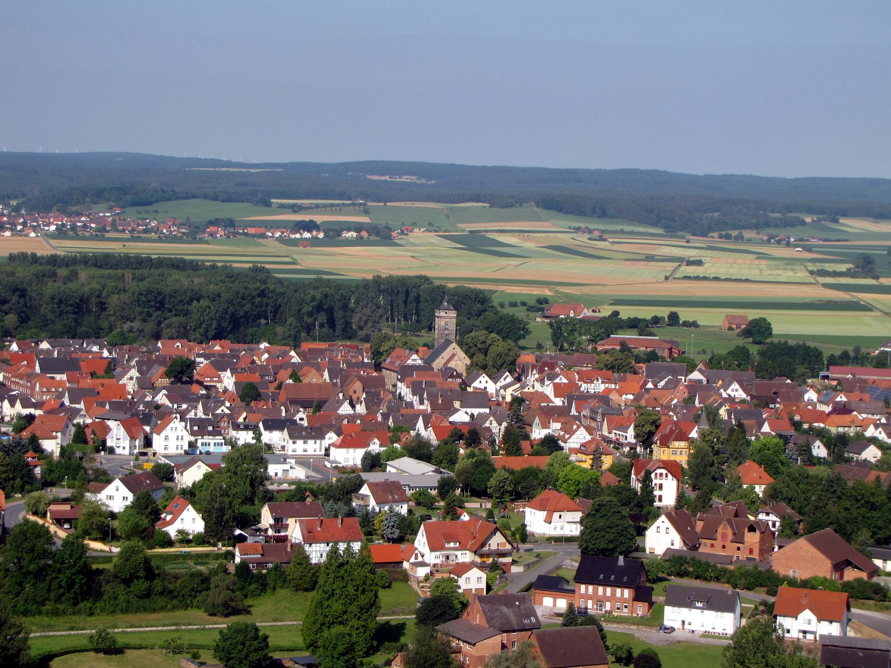 Germany / North Hesse / view from the castle Kugelsburg on the town Volkmarsen